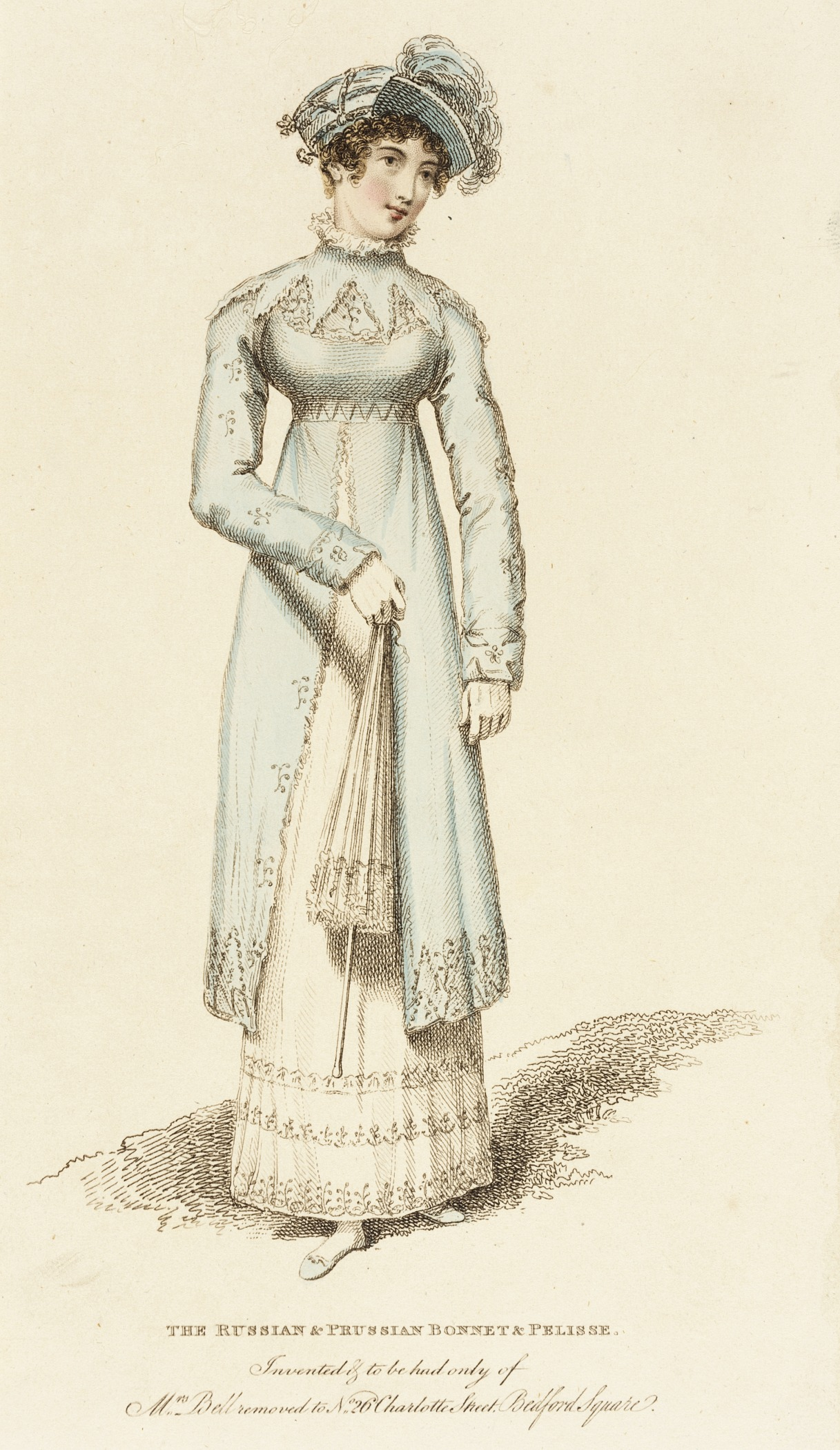 England, London, July 1, 1814 Prints; engravings Hand-colored engraving on paper Gift of Dr. and Mrs. Gerald Labiner (M.86.266.183) Costume and Textiles